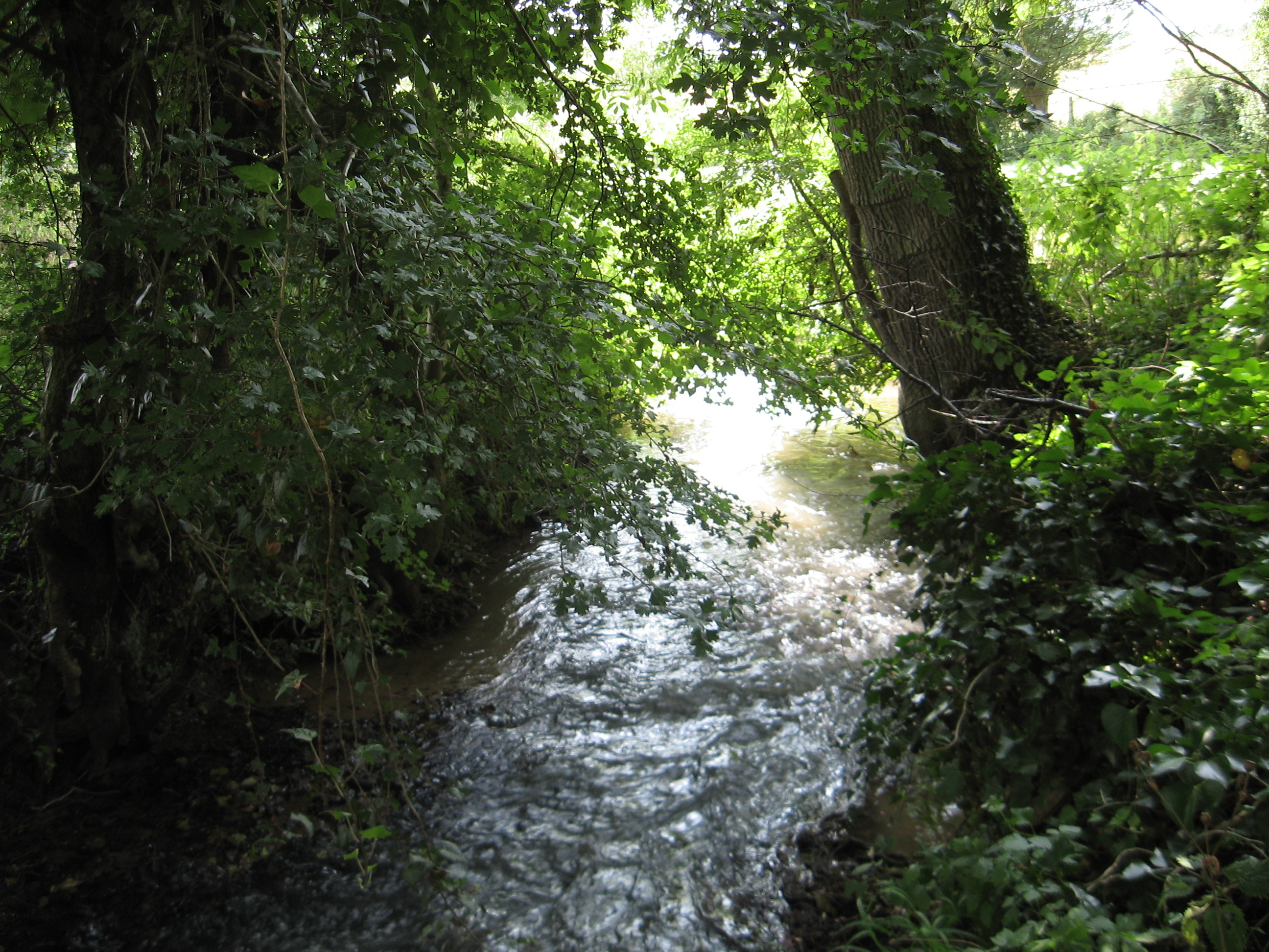 "Le Beaurepaire" river in Voulpaix